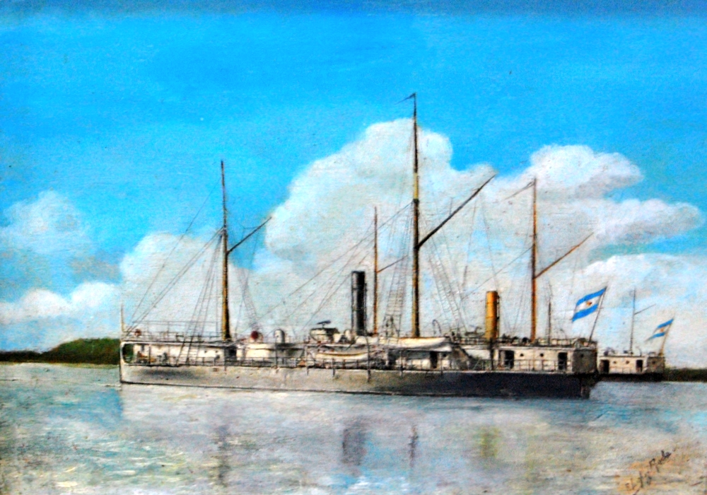 Monitor El Plata built in England to be part of the first High Seas Fleet of Argentina.